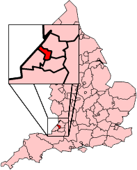 Bristol unitary authority map showing Bristol within England